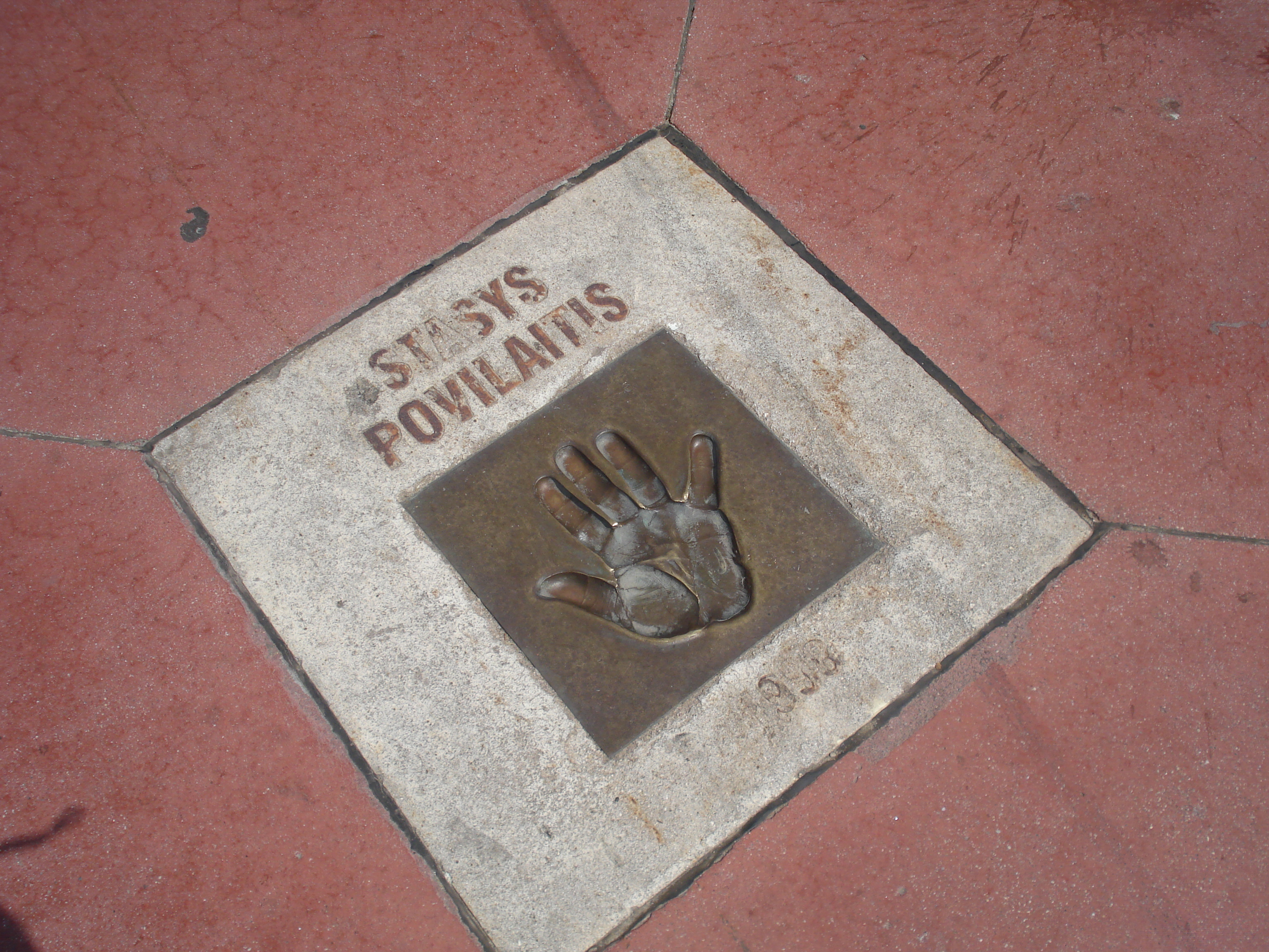 Walk of Fame in Nida: Stasys Povilaitis